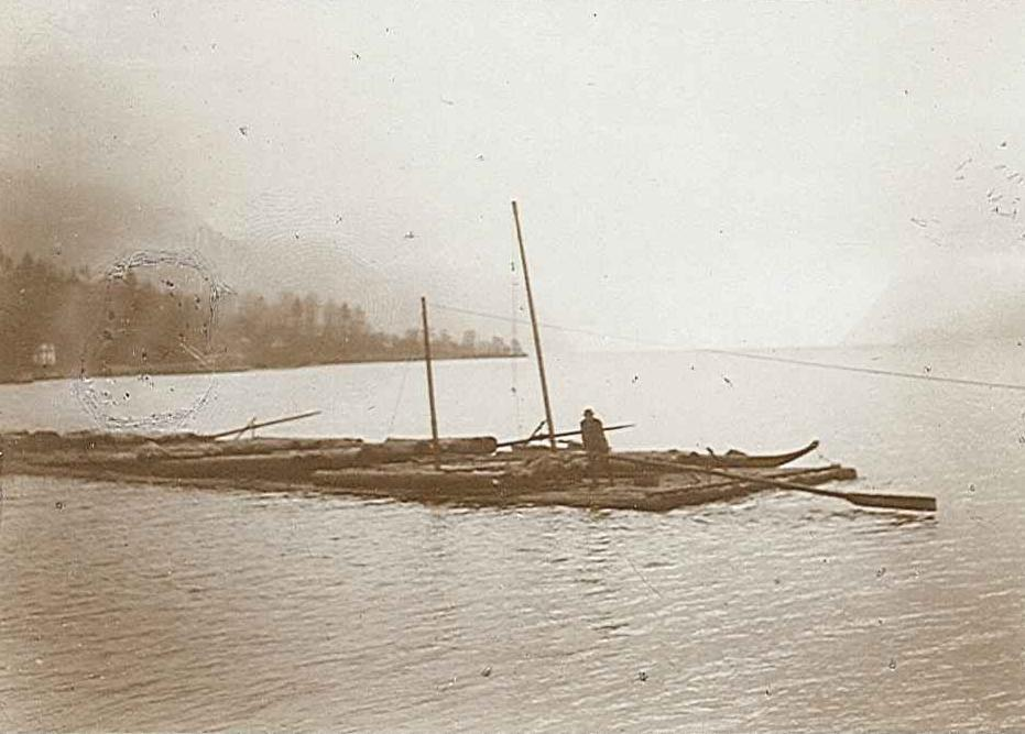 Rafting wood on the Austrian lake Traunsee, 1906